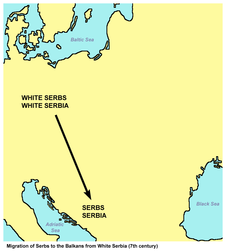 Migration of Serbs to the Balkans from White Serbia (7th century).